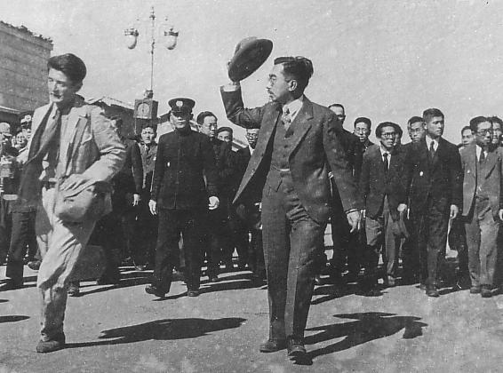 Emperor Showa's visit to Ogaki in 1946